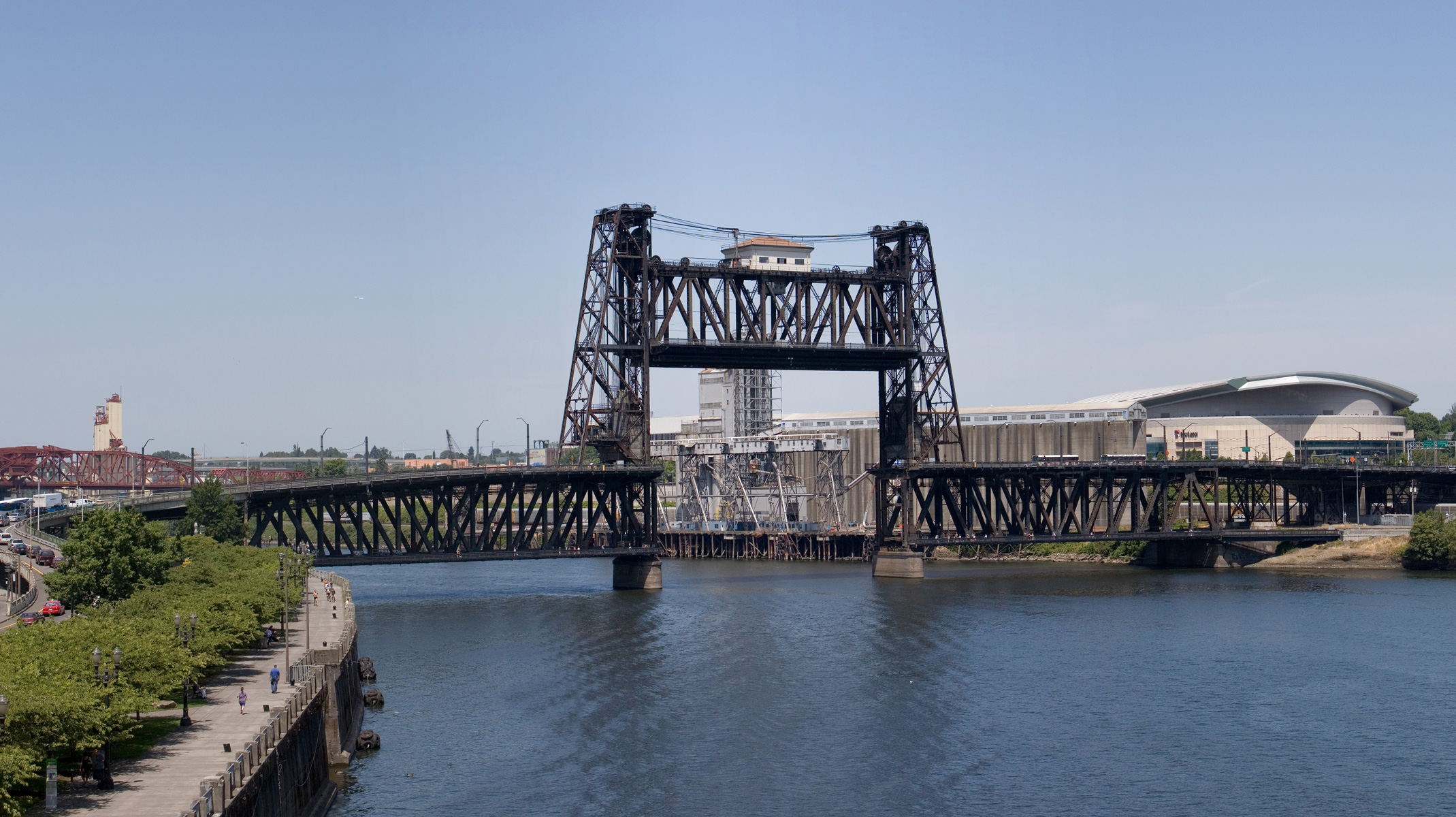 The Steel Bridge in Portland, Oregon while fully raised.